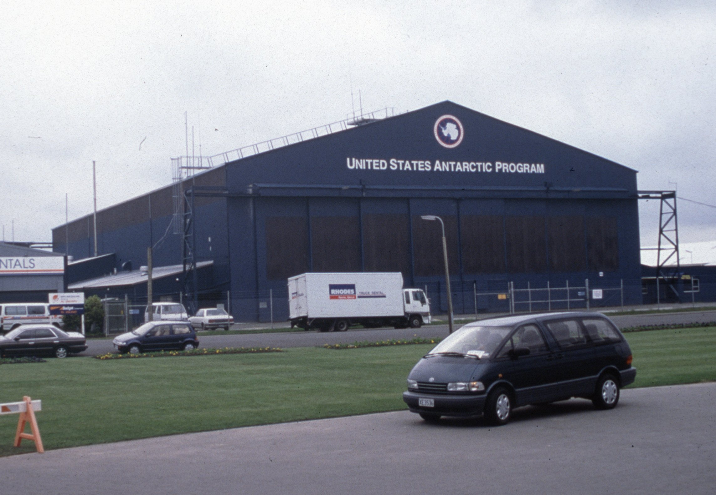 US Antarctic Center, Christchurch, New Zealand.